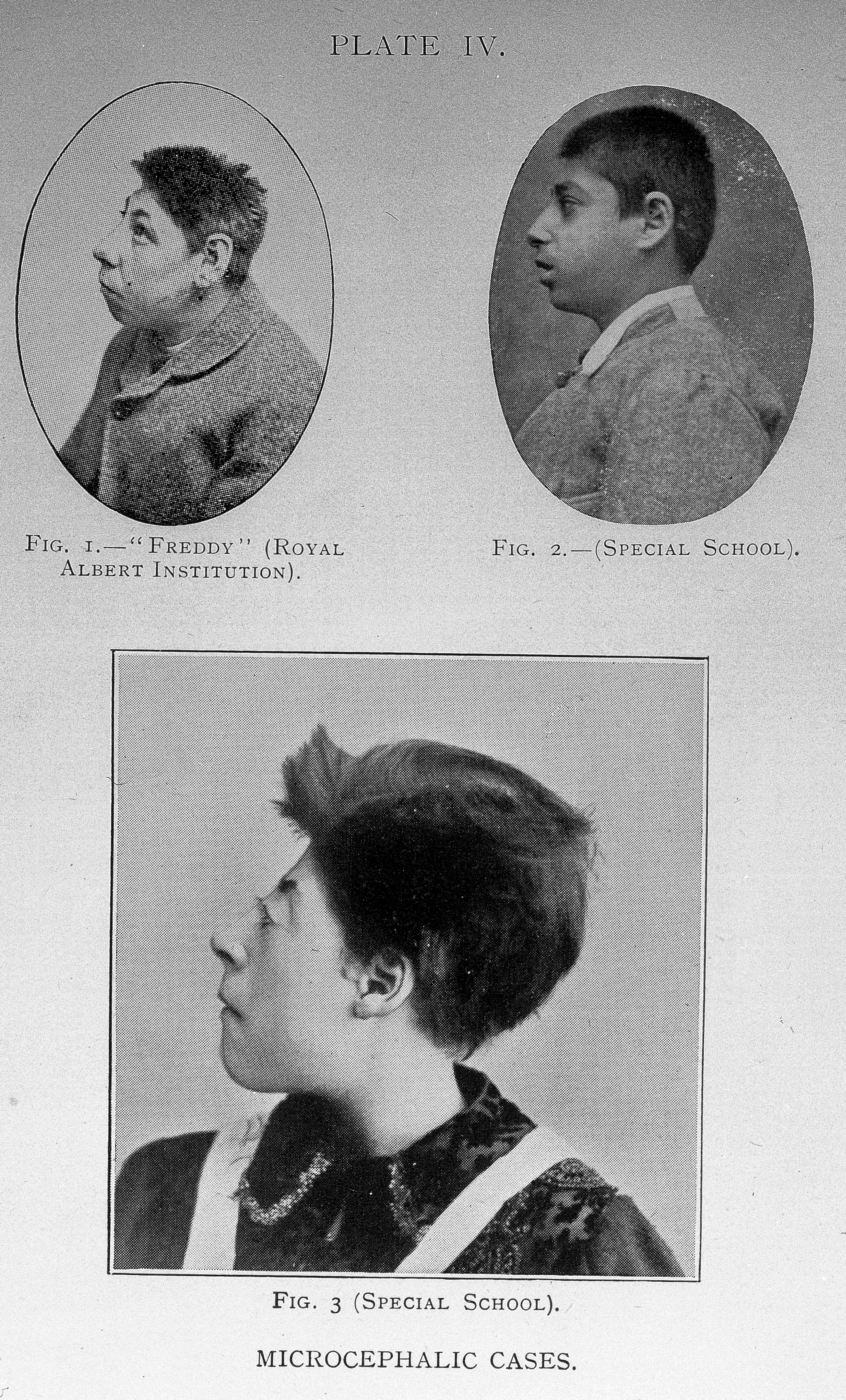 Microcephalic Cases